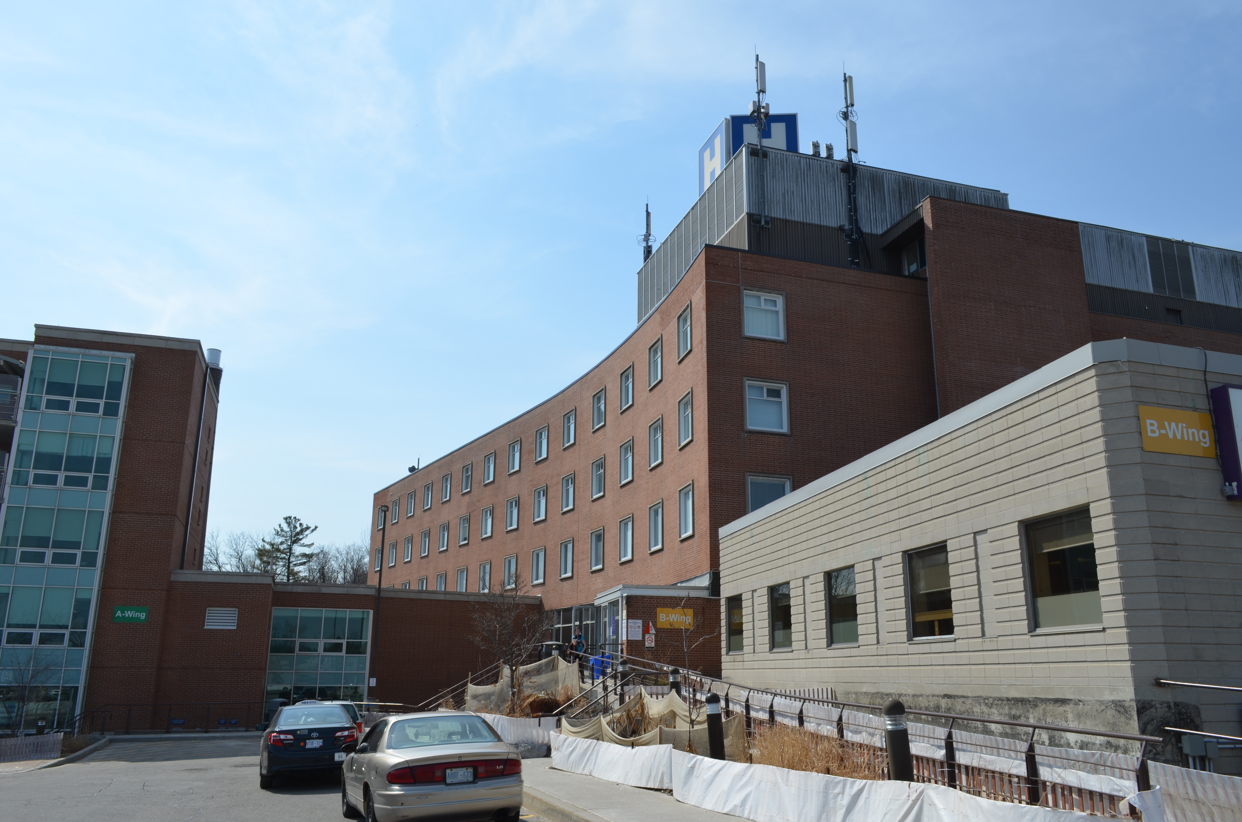 Mackenzie Richmond Hill Hospital